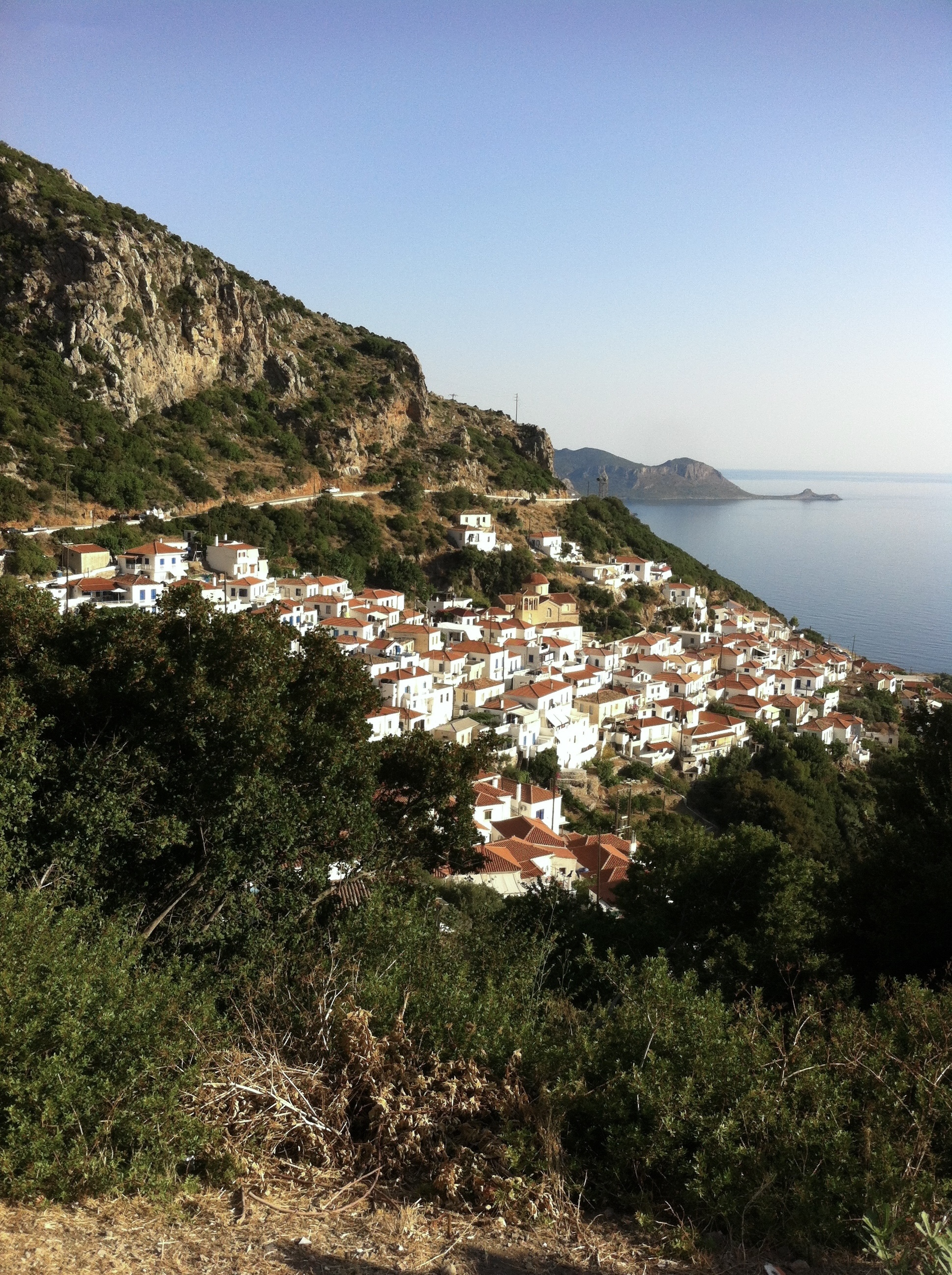 Velanidia, Monemvasia municipality, Laconia, Greece